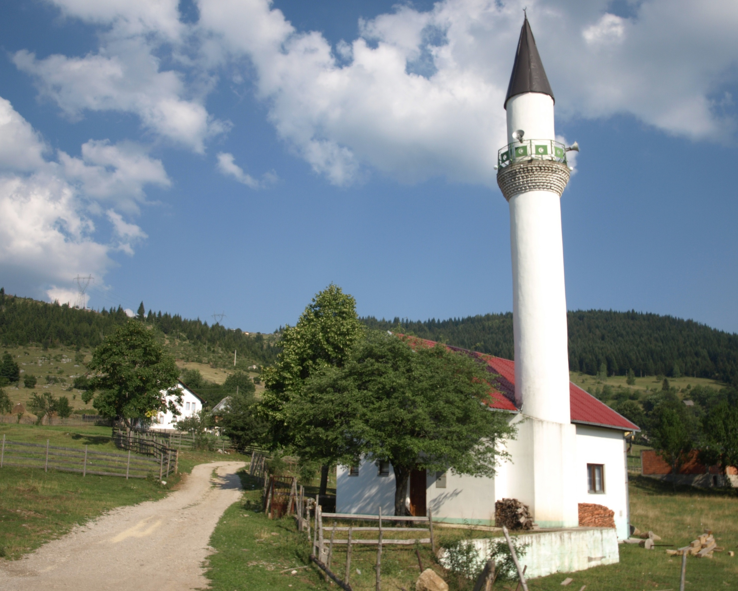 Mosque in the settlement Dacići of the Rožaje commune in Montenegro on 1335 m above sealevel